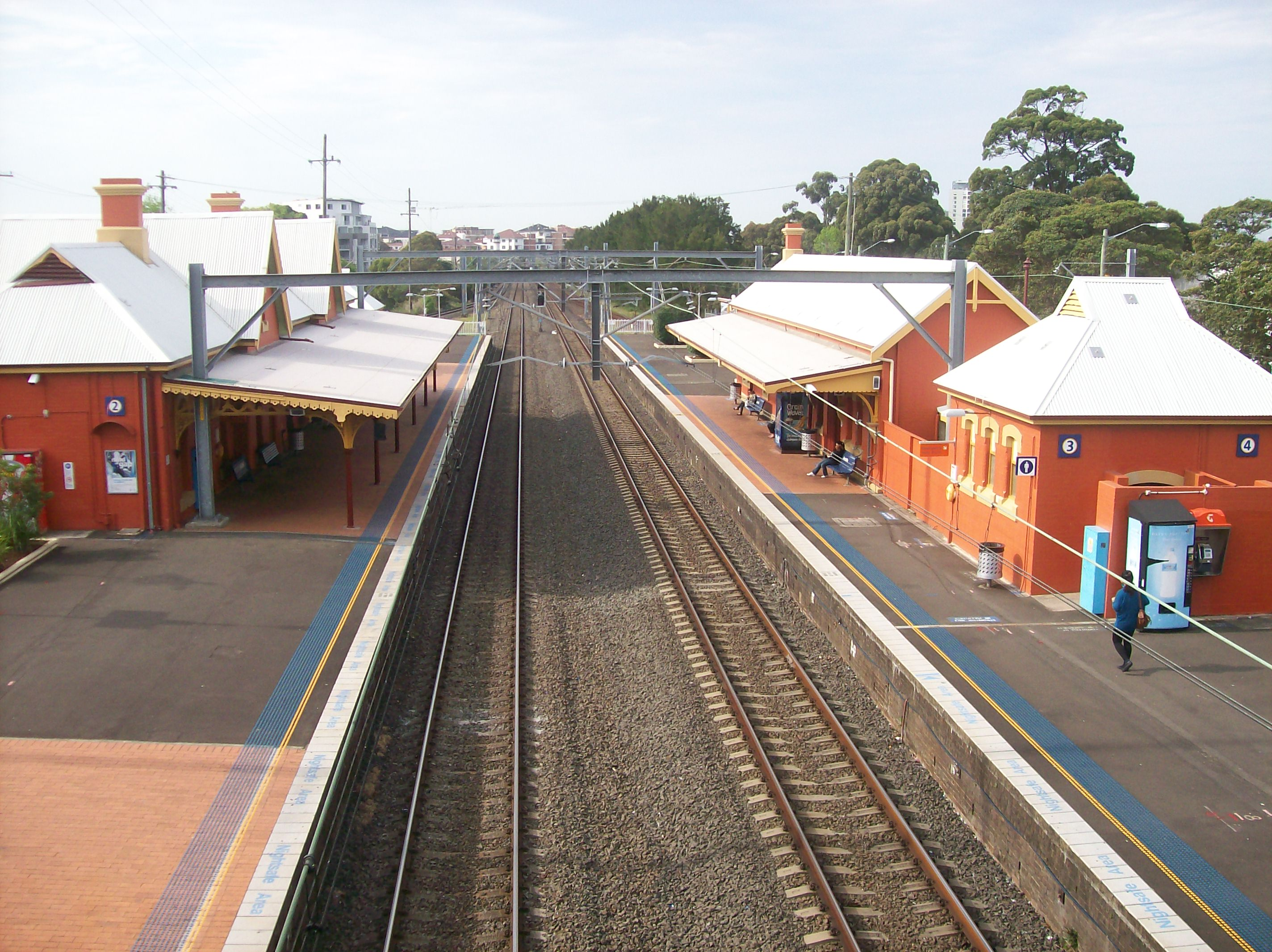 Arncliffe railway station platforms from footbridge